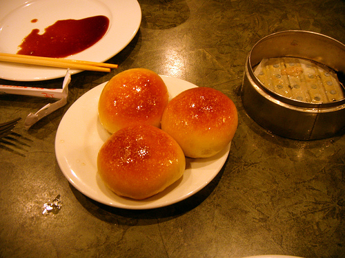 Char siu baau secondary appearanceChar siu baau secondary appearance